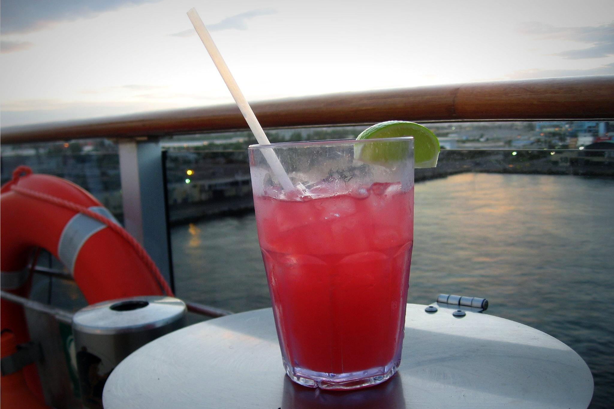 I had to wait about five minutes for a drink, so the bartender went overboard on the vodka. Not complaining!